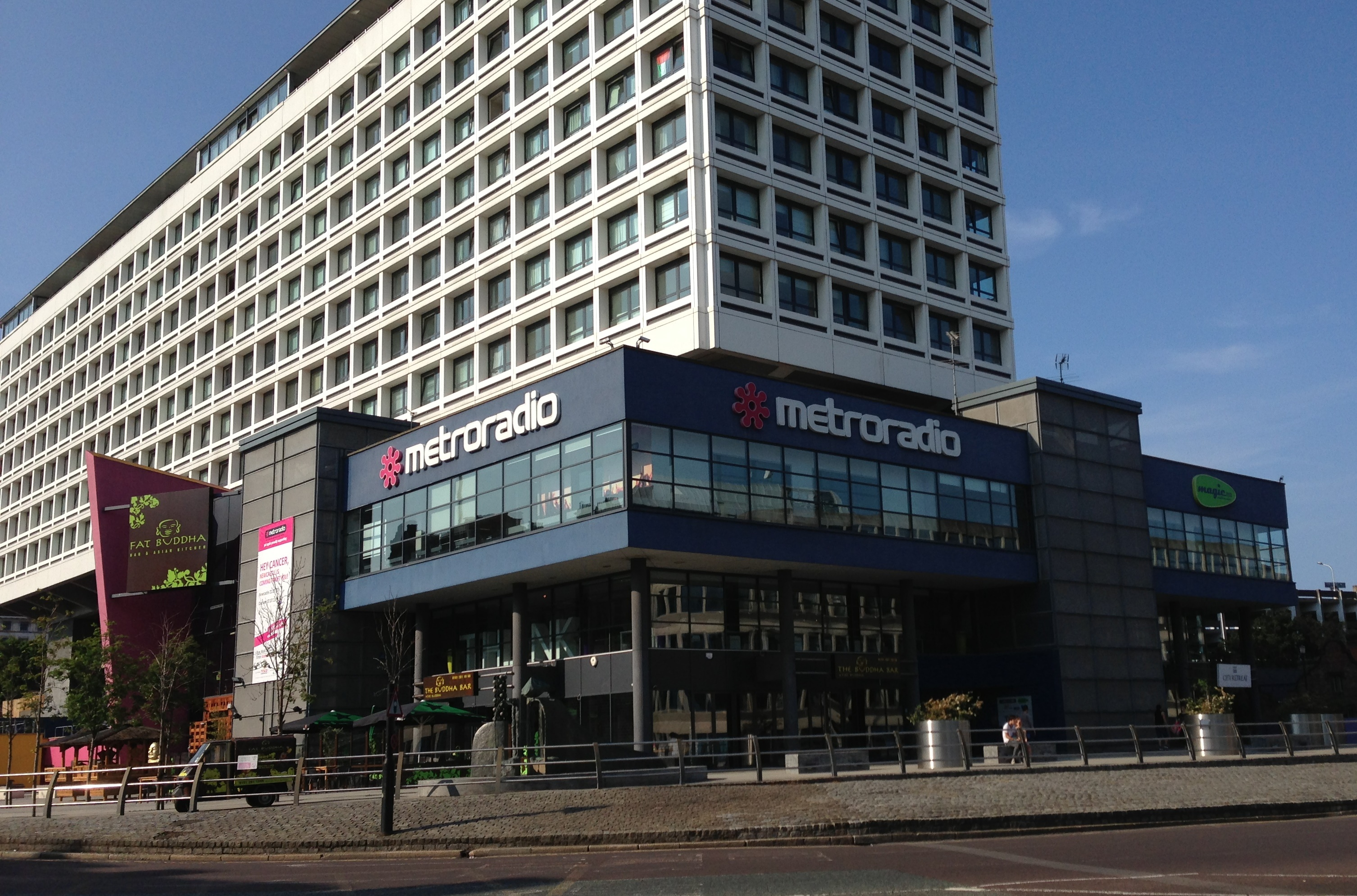 Metro Radio office and studio complex on the Swan House roundabout, part of the 55 Degrees North complex of offices and residential flats.